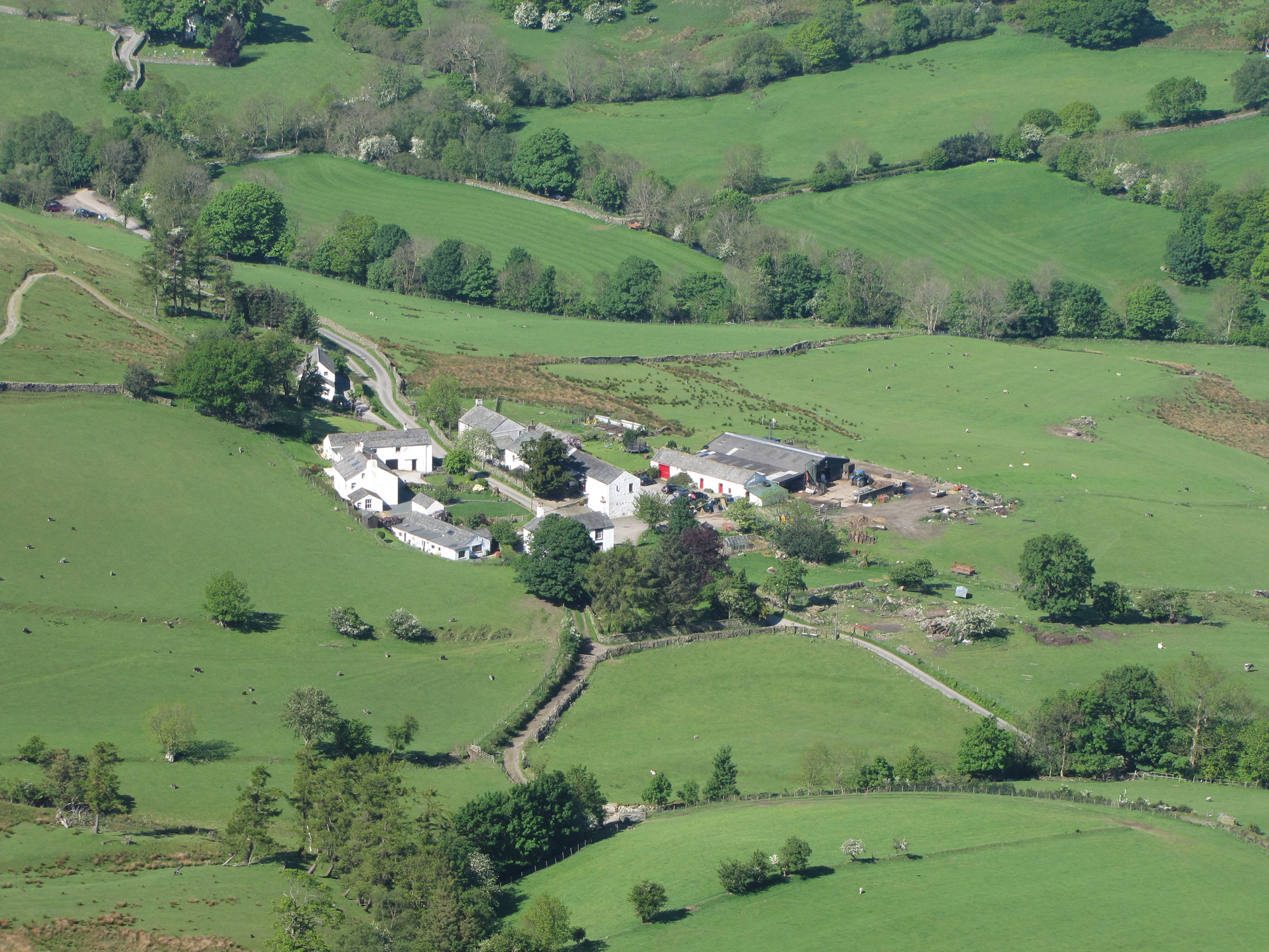 The hamlet of Little Town in the Newlands Valley in the English Lake District.